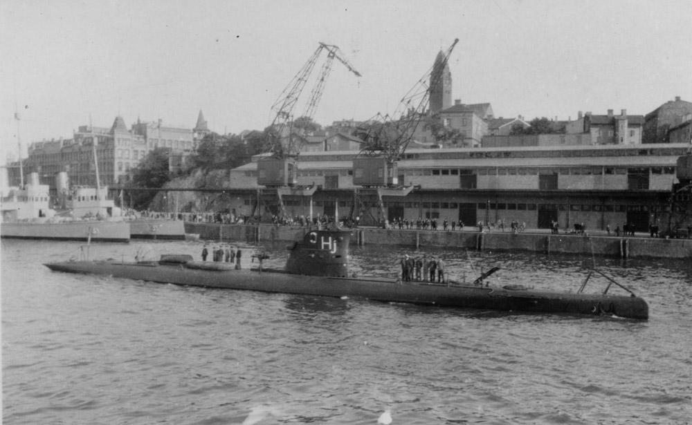 Swedish submarine HMS Hajen in Gothenburg 1941.